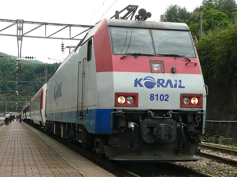 KORAIL 8100series electric locomotive